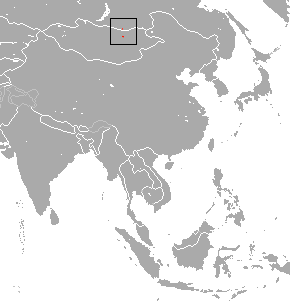 Hoffmann's Pika (Ochotona hoffmanni) range